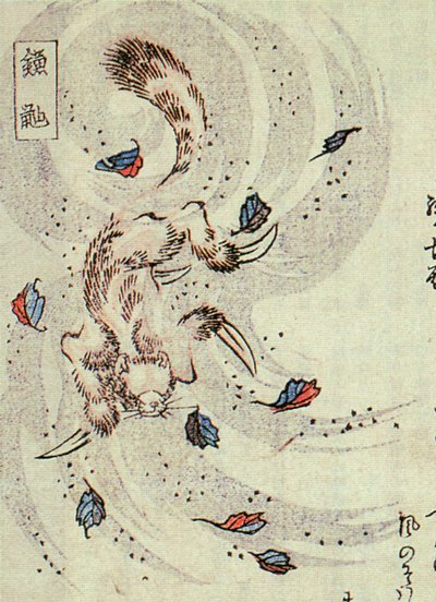 Kamaitachi (the slashing sickle-weasel that haunts the mountains) from Kyōka Hyaku Monogatari